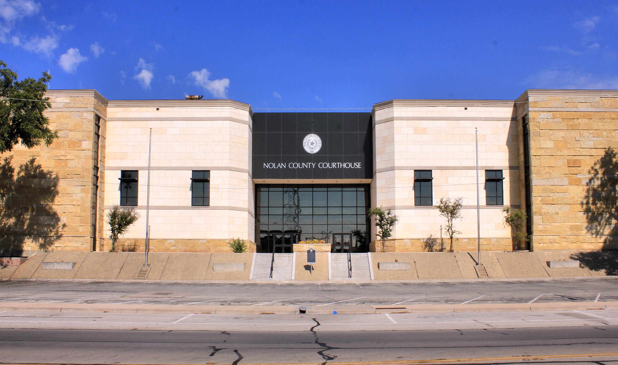 The Nolan County Courthouse in Sweetwater, Texas, United States was built in 1977.